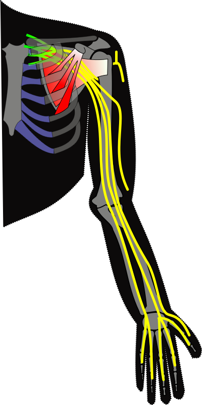 unlabeled view of the brachial plexus